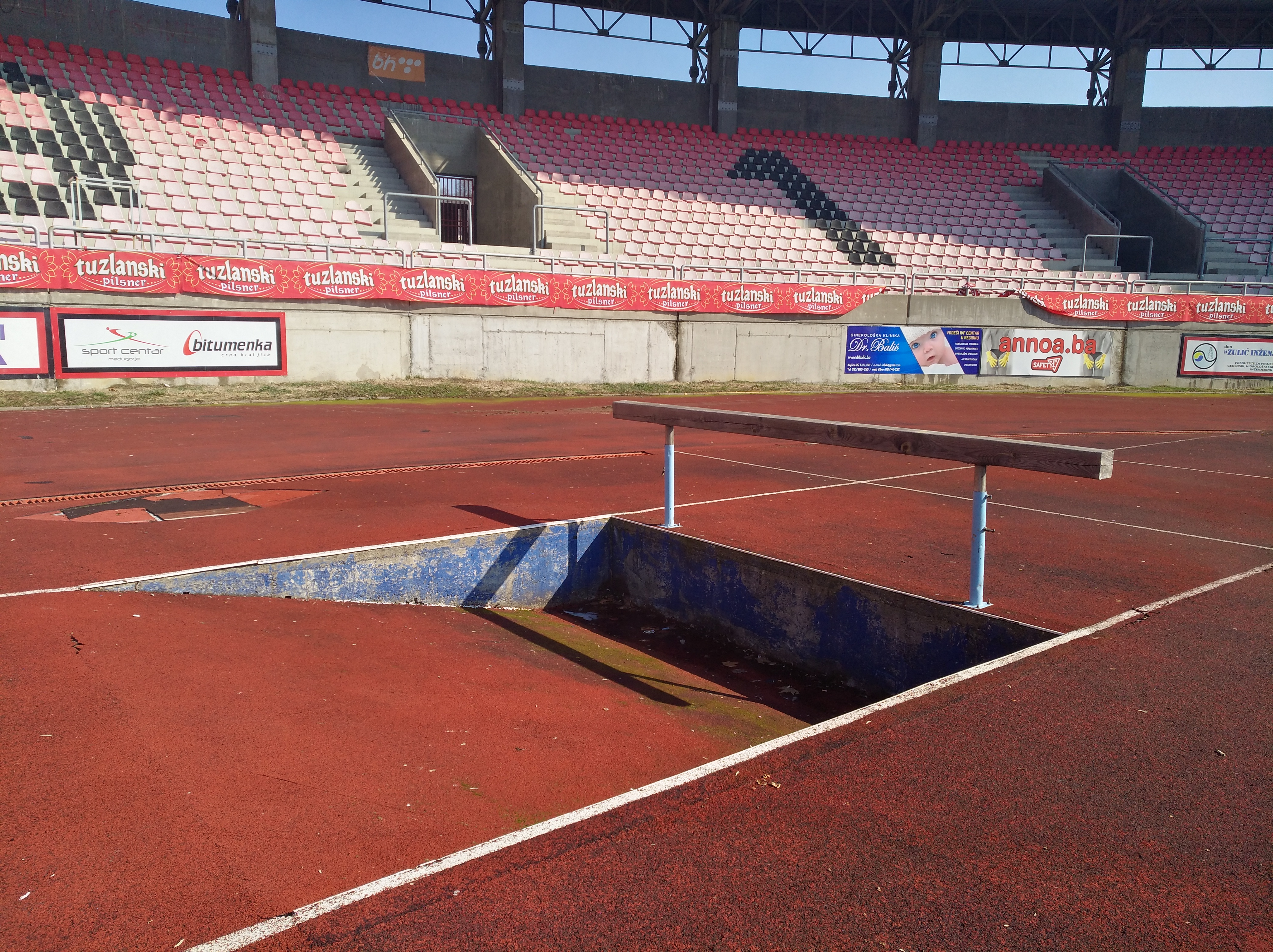 Tušanj Stadium, Tuzla, Bosnia and Herzegovia.